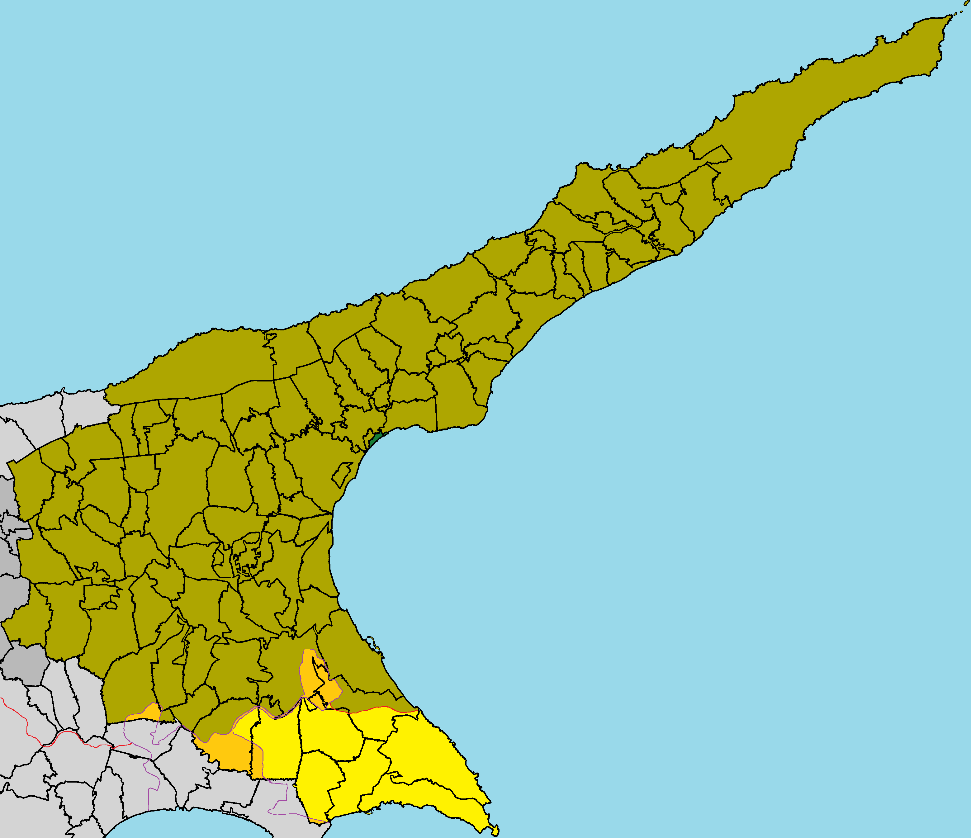 Bogazi in Famagusta District (de jure).